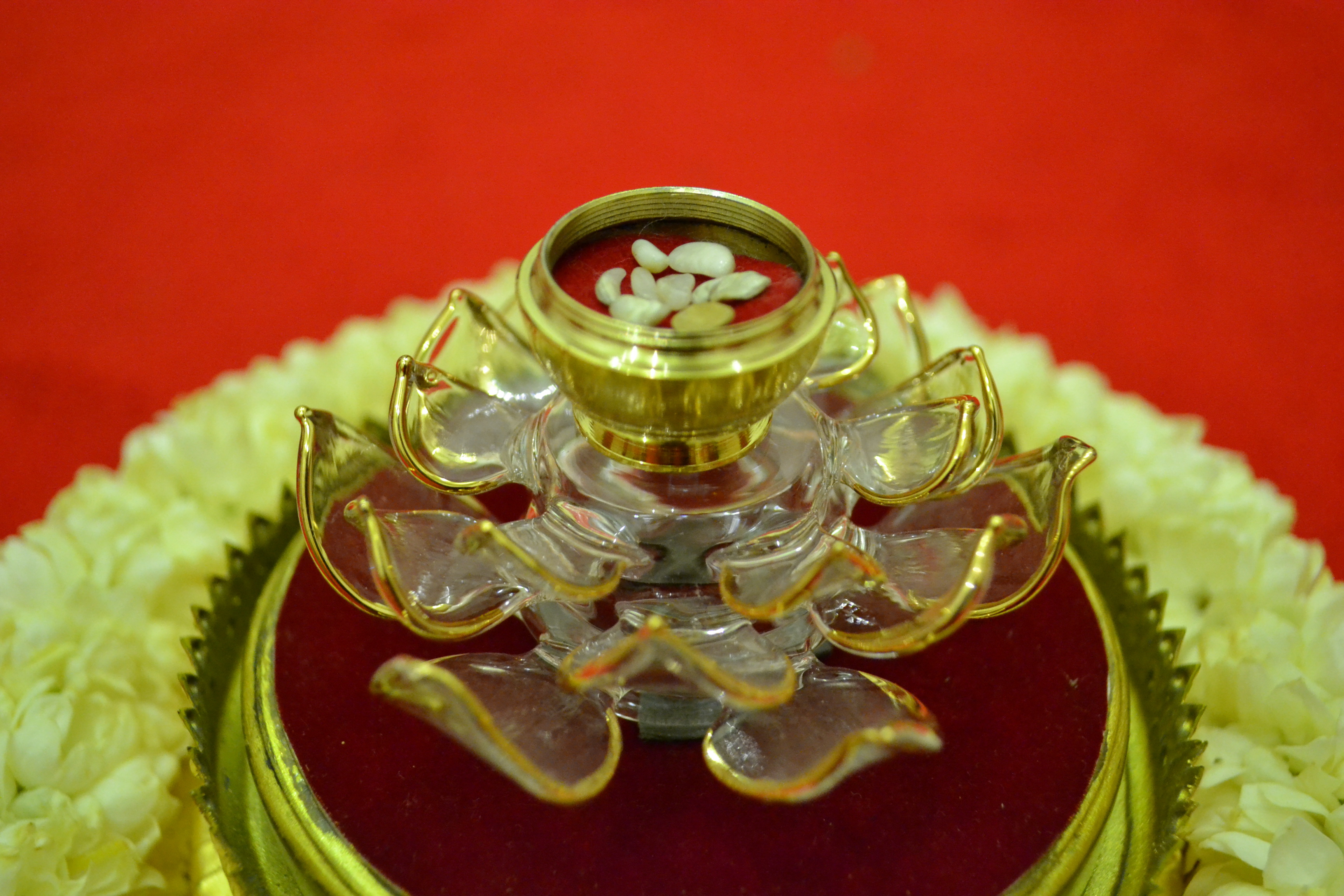 Buddhist relics from His Holiness Supreme Patriarch of Thailand in Wat Khung Taphao, Ban Khung Taphao, Khung Taphao subdistrict, Mueang Uttaradit, Uttaradit Province, Thailand.